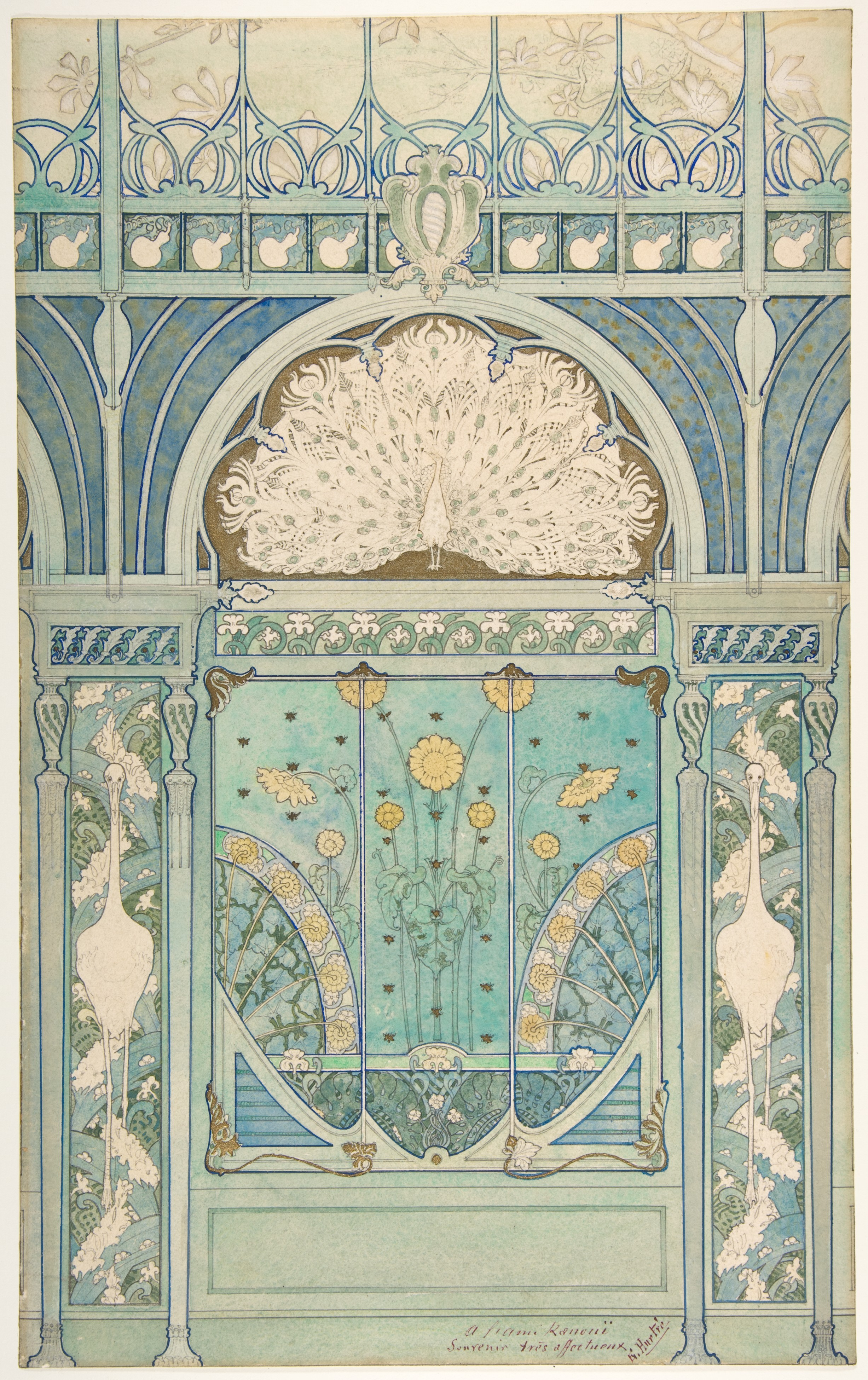 Wall elevation from a restaurant, formerly in the Hôtel Langham in Paris, now known as the 'Salle 1900' in the restaurant 'La Fermette Marbeuf', 5 Rue Marbeuf. This drawing was probably produced for reproduction, since a full color print of the exact same day exists with the names of both Émile Hurtré and Jules Wielhorski in print ont the lower left.